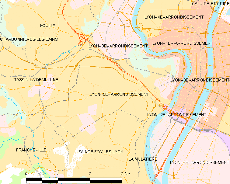 Map of French municipality